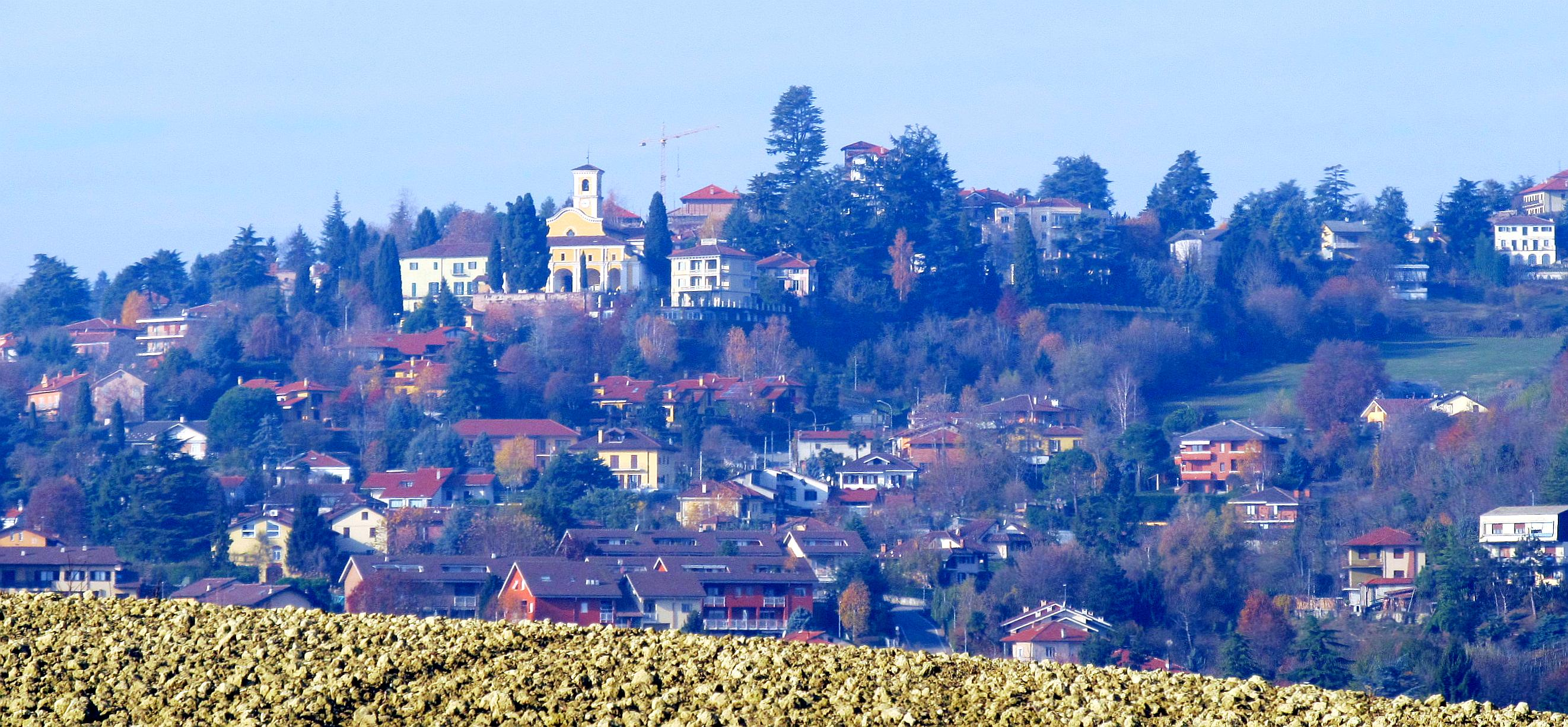 Pino Torinese (TO, Italy): panorama